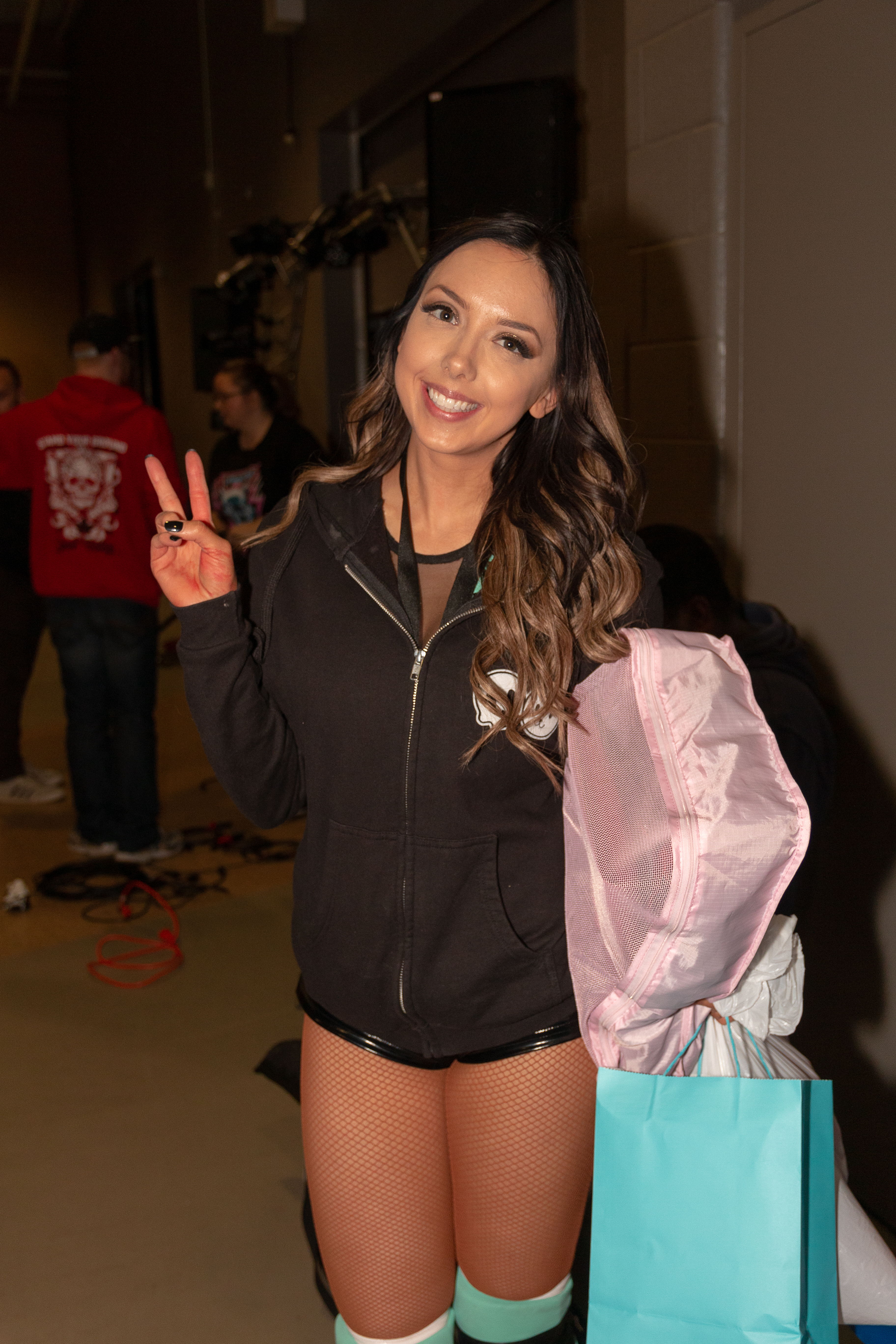 Pro wrestler Allie photographed post-event at Smash Wrestling's Canusa 2018 show in London, ON